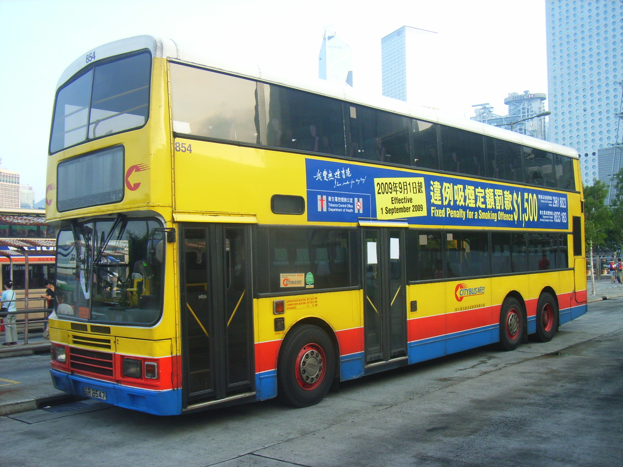 中環 中環碼頭巴士總站 黃昏 城巴 香港衞生署控煙辦公室車身廣告